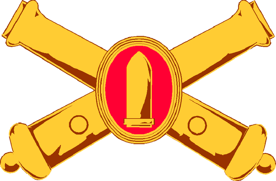 This image is a work of a U.S. Army soldier or employee, taken or made as part of that person's official duties. As a work of the U.S. federal government, the image is in the public domain.